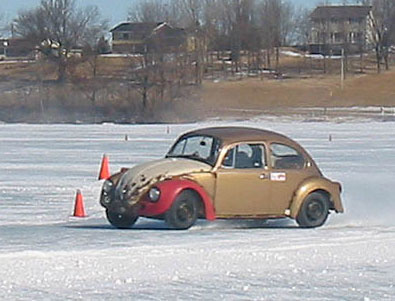 VW type 1 performing Ice racing on a frozen lake in Wisconsin